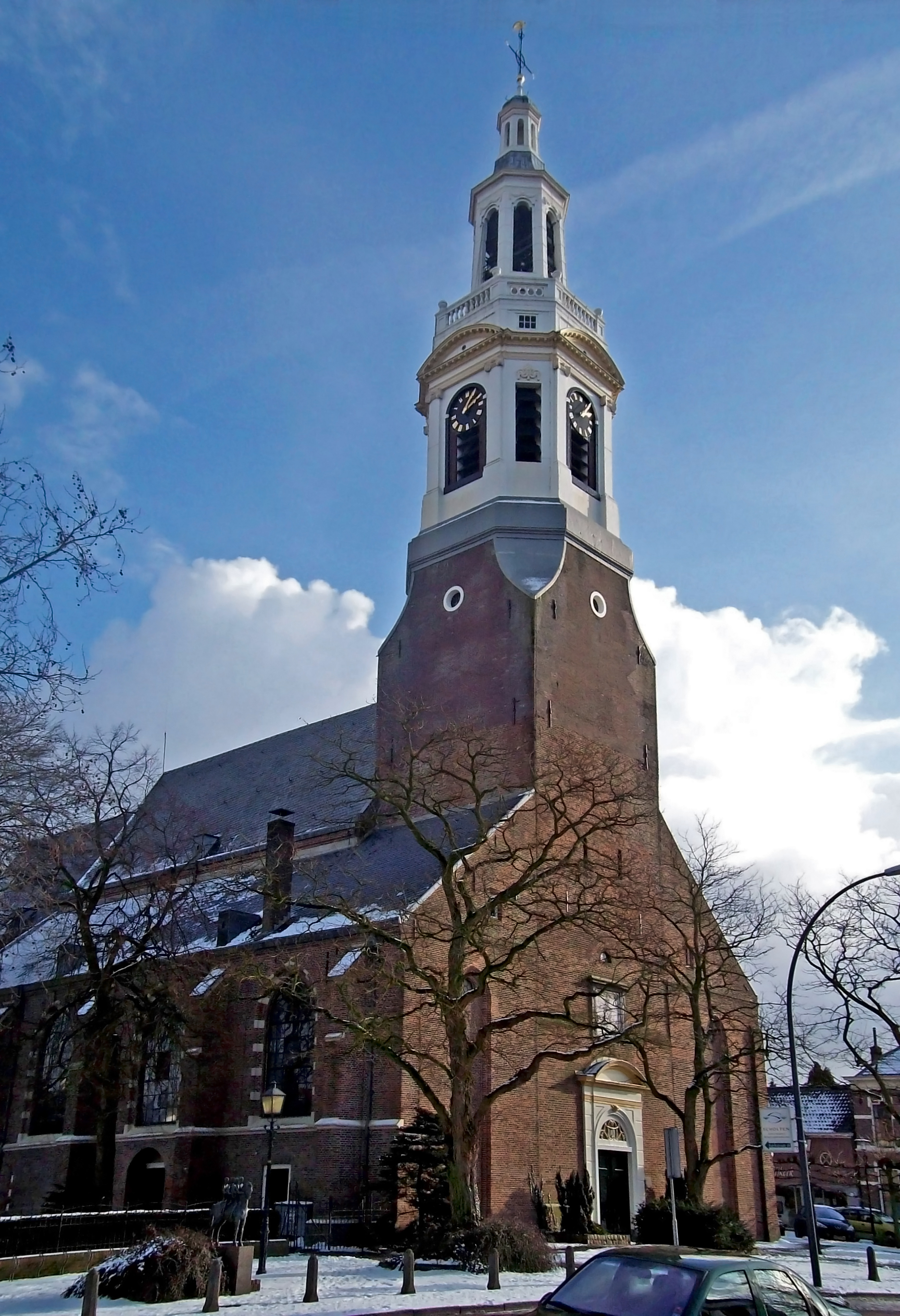 The Grote Kerk in Nijkerk (Holland)